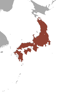 Japanese Badger (Meles anakuma) range